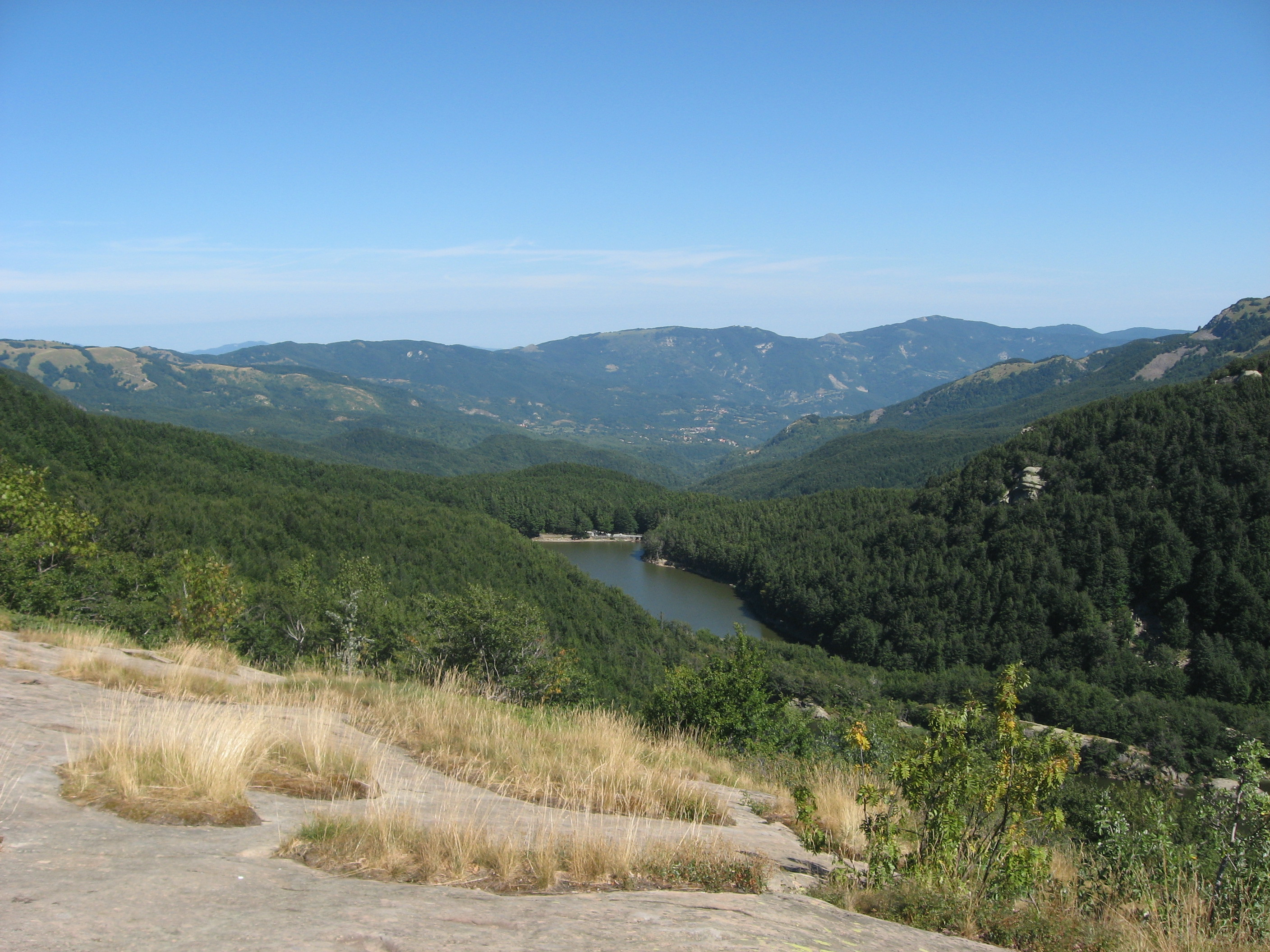 Lake Gemio2